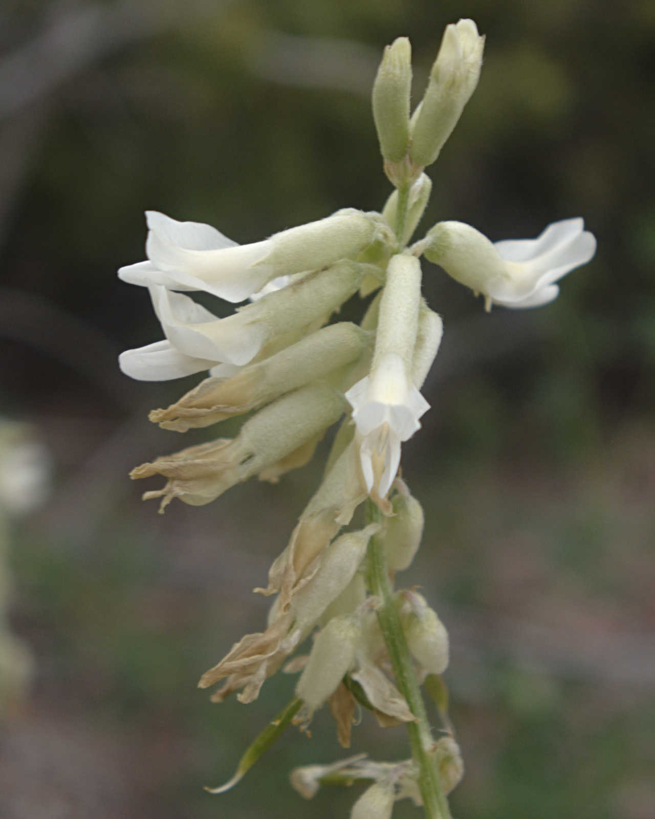 Flowers of Astragalus lonchocarpus, rush milkvetch, Hyde Park Rd., Santa Fe, New Mexico, USA.